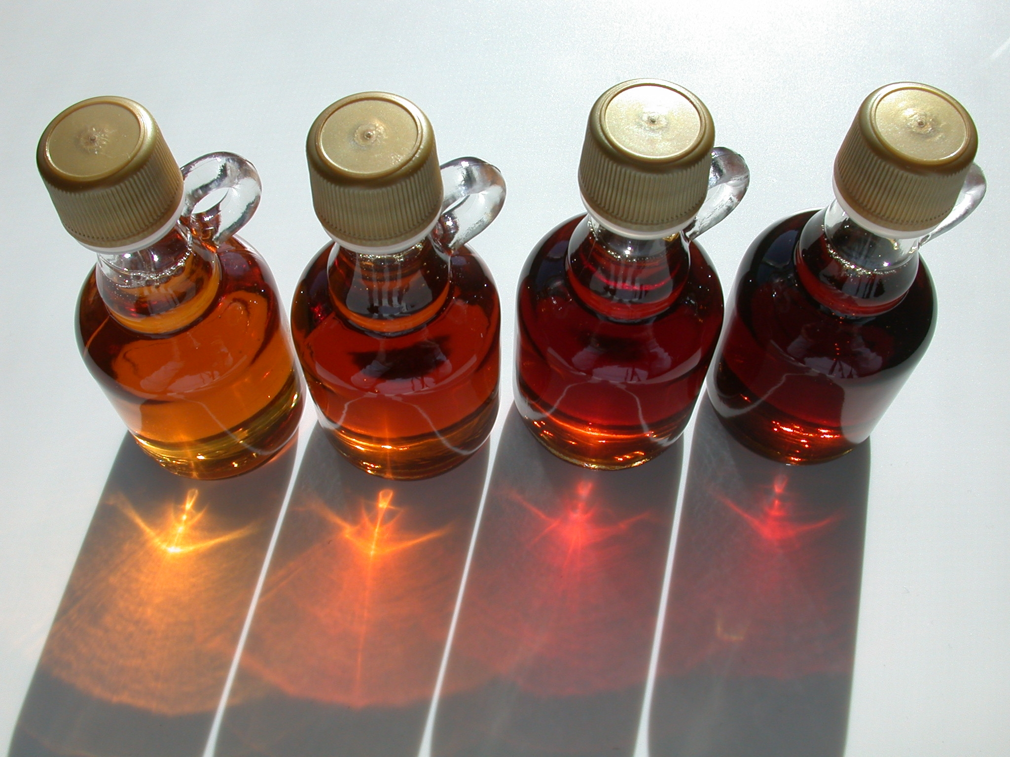 Grades of Vermont maple syrup. From left to right, Vermont Fancy, light amber color, delicate maple bouquet; Grade A Medium Amber, medium amber color, pronounced maple bouquet; Grade A Dark Amber, dark amber color, robust maple bouquet; Grade B, darkest color, strong maple bouquet.